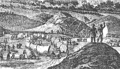 Traders on Santa Fe Trail at Camp Comanche, Oklahoma, from Josiah Gregg, Commerce of the Prairies, 1844